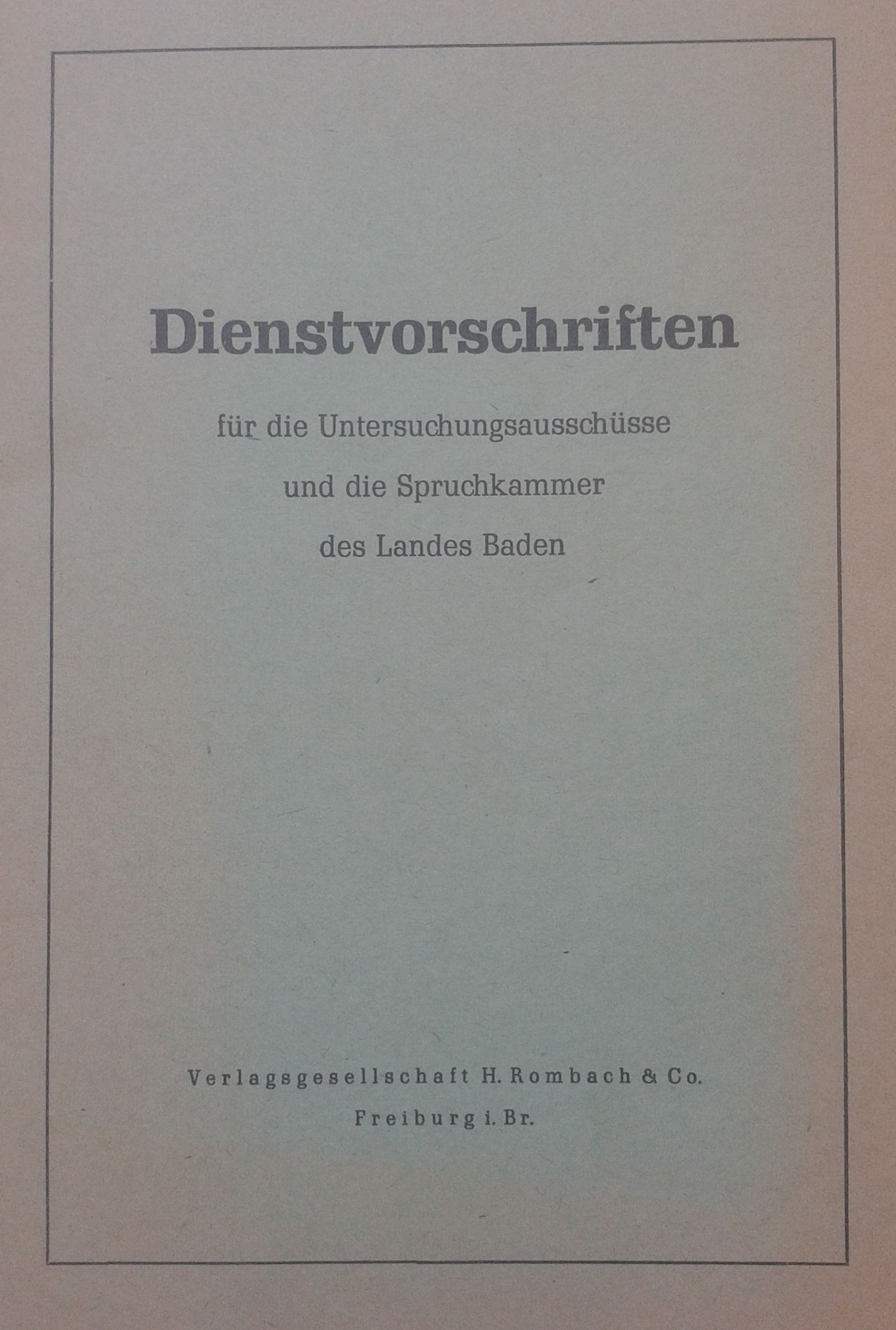 "Dienstvorschriften" - Denazification-orders, Staatskommissariat Baden, Freiburg, 1947